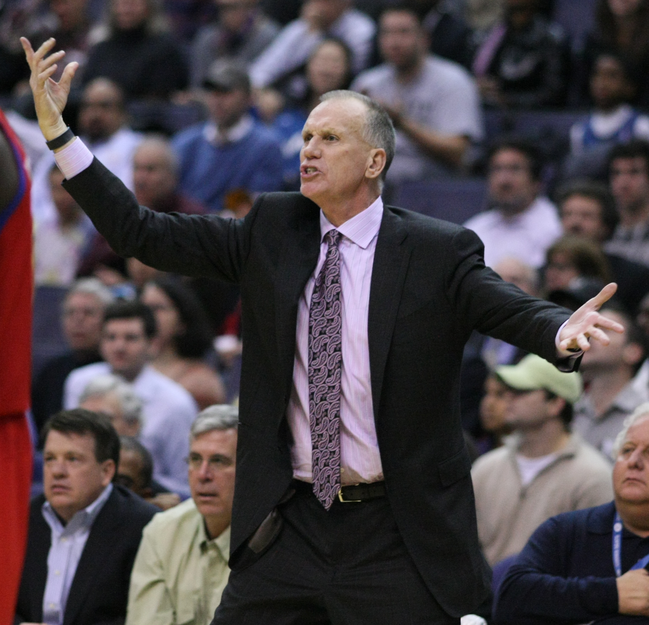 Doug Collins, coach of the Philadelphia 76ers at Verizon Center. Washington Wizards v/s Philadelphia 76ers November 23, 2010